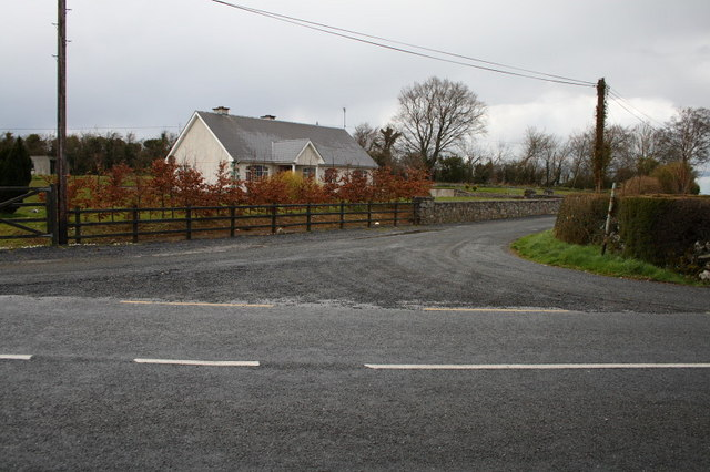 Road junction. Cottage at Cleggarnagh road junction on the R392 about 3Km west of Rathconrath.